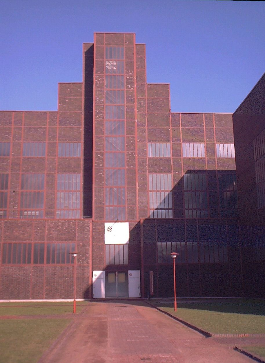 red dot design museum in the boiler house of the former coal mine Zollverein in Essen, Germany